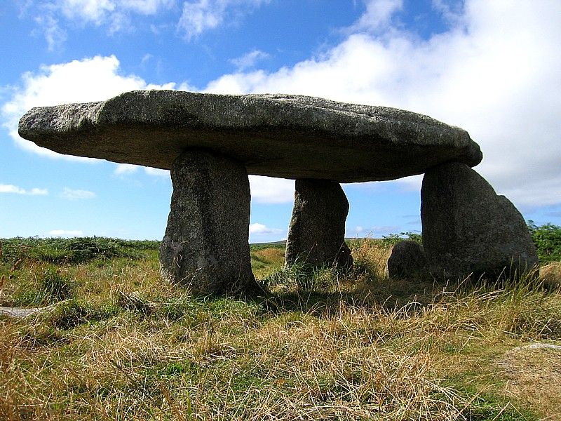 Lanyon Quoit - Megalith - Cornwall - UK